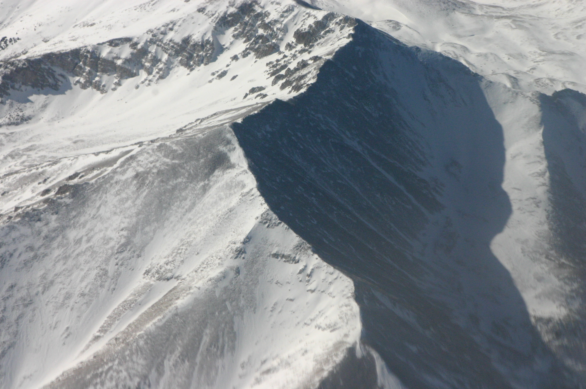 An aerial section of snow-covered Rocky Mountain range. This image shows an aerial view of Mt. Princeton. Mt. Princeton is the 18th tallest mountain in Colorado at 14,147 ft.